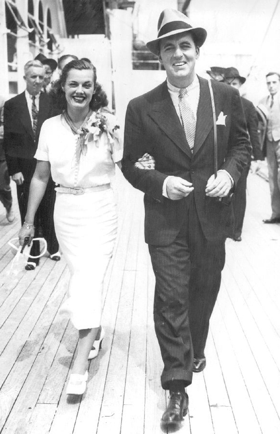 1936 American Olympic Swimmer Eleanor Holm Jarrett & Husband Art Press Photo